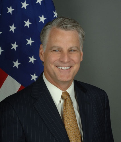 Timothy J. Roemer U.S. Ambassador to the Republic of India